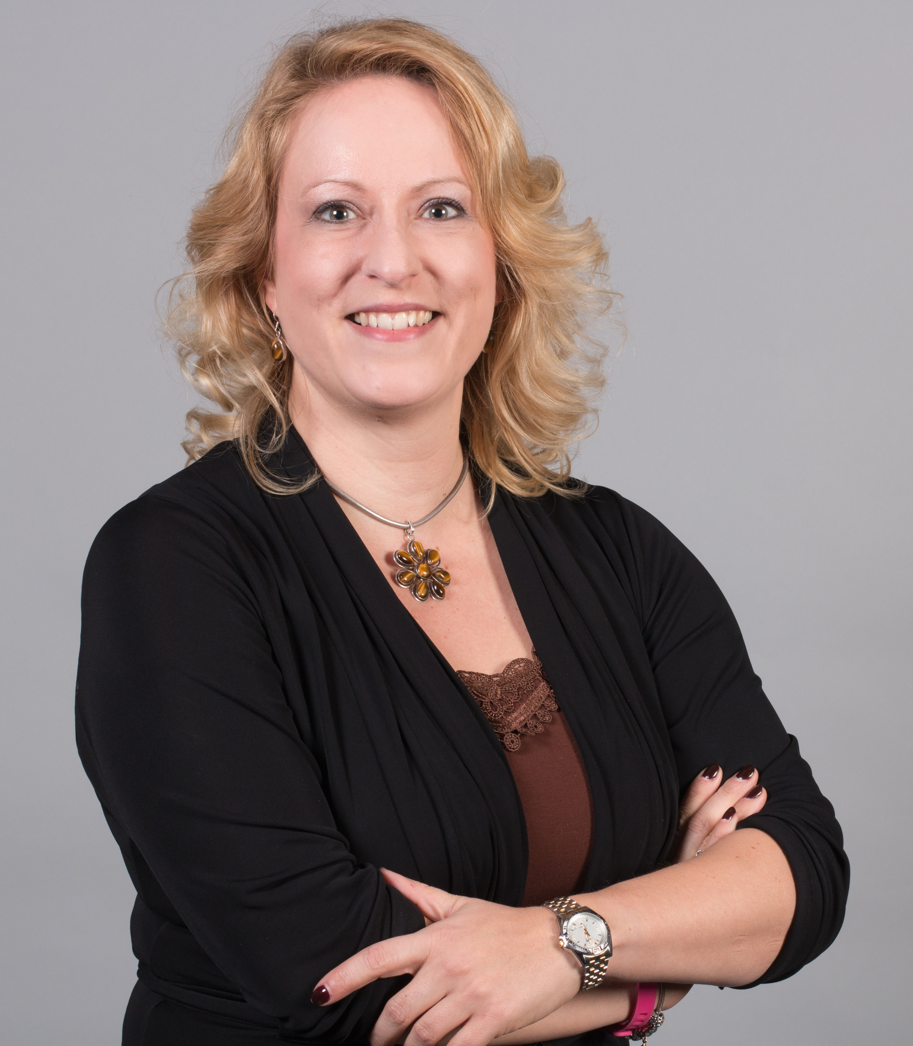 Esther de Lange, Member of the European Parliament